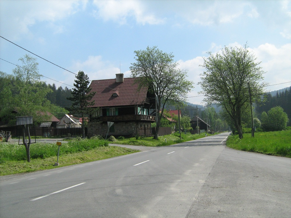 Bílá village in Beskydy